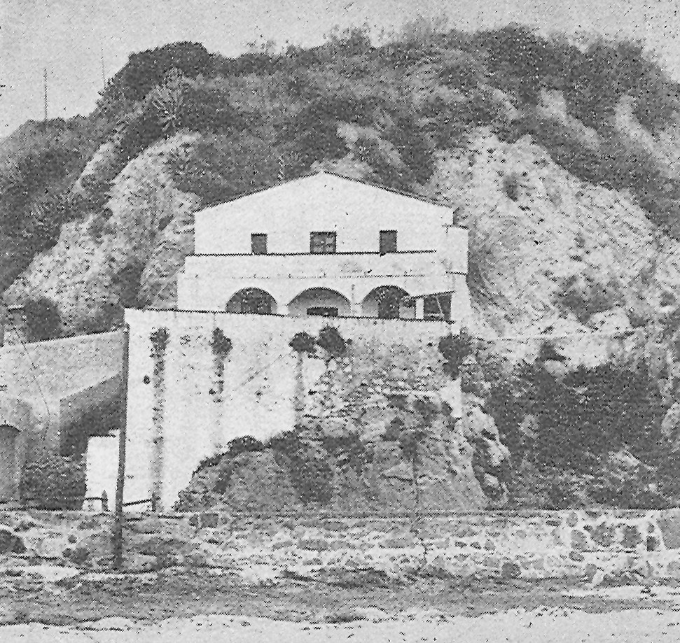 estudi de pilots in 1890's